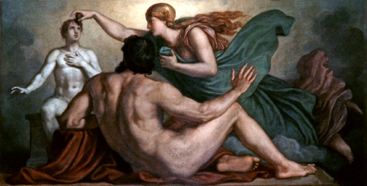 After Prometheus has created man out of mud, Athena breathes life into him, imparting reason and understanding. Part of a cycle on the myth of Prometheus by Christian Griepenkerl. Ceiling painting (oil on canvas) above the grand staircase in the Augusteum, Oldenburg.